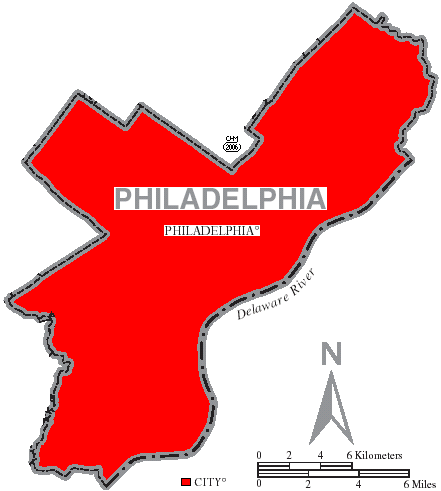 Map of Philadelphia County, Pennsylvania, United States with township and municipal boundaries